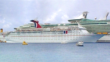 CCL Holiday docked in Cozumel. Photo taken in March 2004.